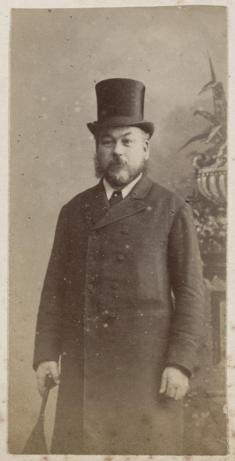 Henry Bastow portrait for the Centennial International Exhibition 1888